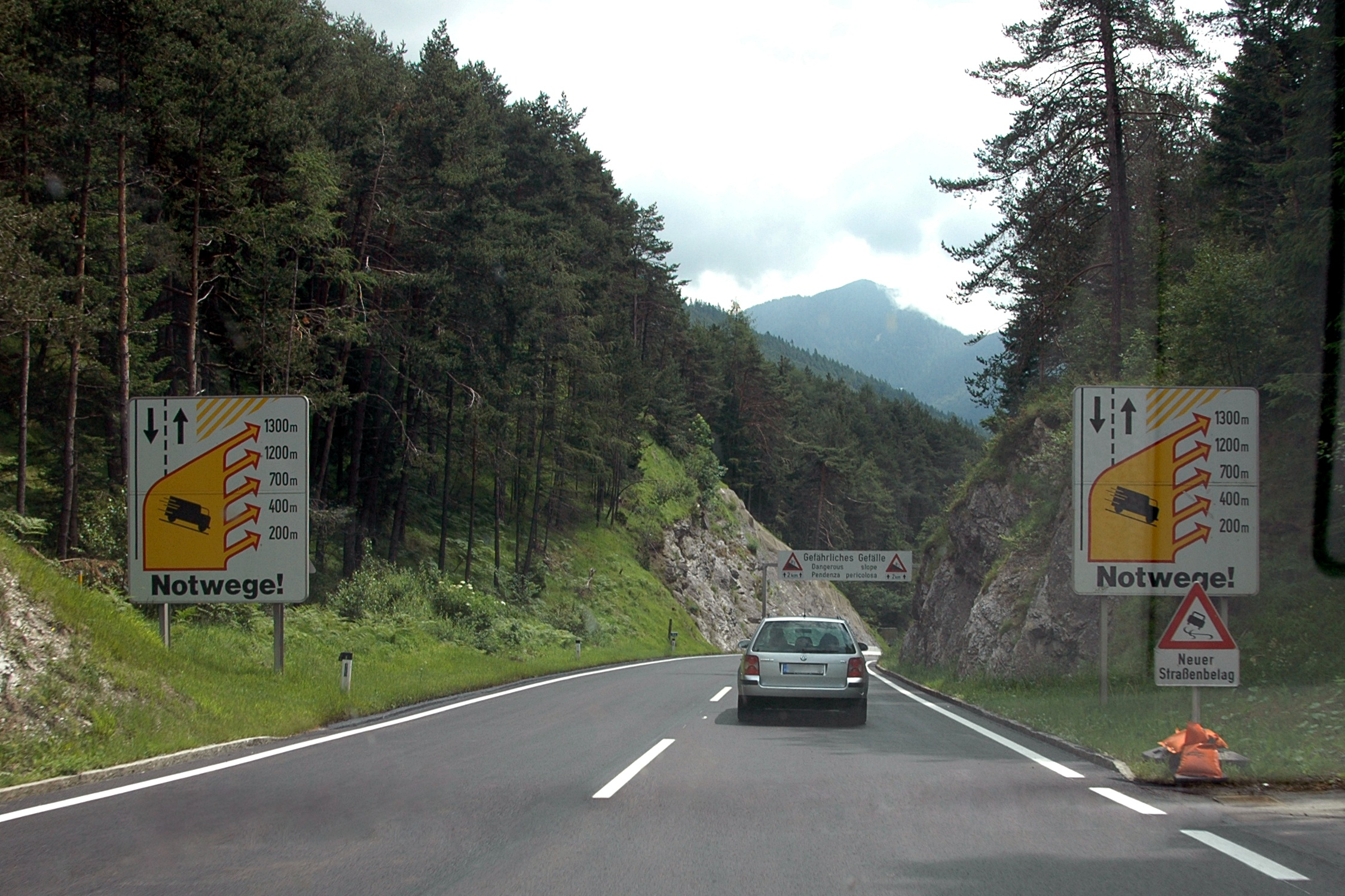 Driveway to the slope of the Zirl mountain road. Information signs about runaway truck lanes on both roadsides. Ahead above the road a sign, which informs of 'Dangerous slope' with a gradient of 16 per cent and a length of 2 kilometers.